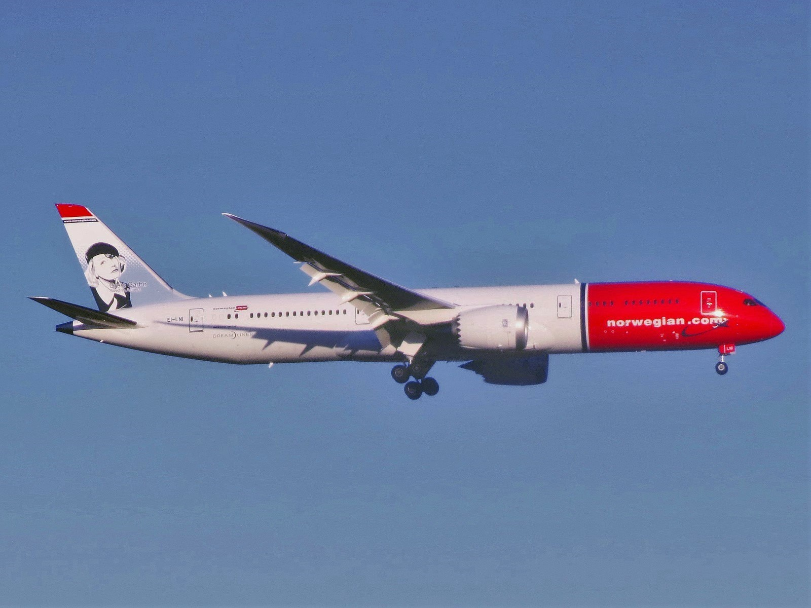 A Norwegian Air Shuttle Boeing 787-9 Dreamliner, named Greta Garbo (as indicated by the art on the vertical stabilizer) and leased from Jordache's MG Aviation subsidiary, performing Flight DY7015 from London (Gatwick) to New York, is on final approach to Runway 22R at John F. Kennedy International Airport.